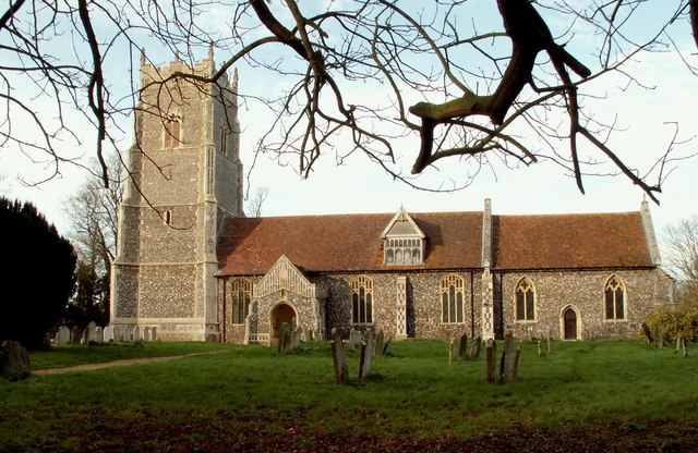 Church of St Mary in Helmingham, Suffolk, England. A Grade I listed medieval church.